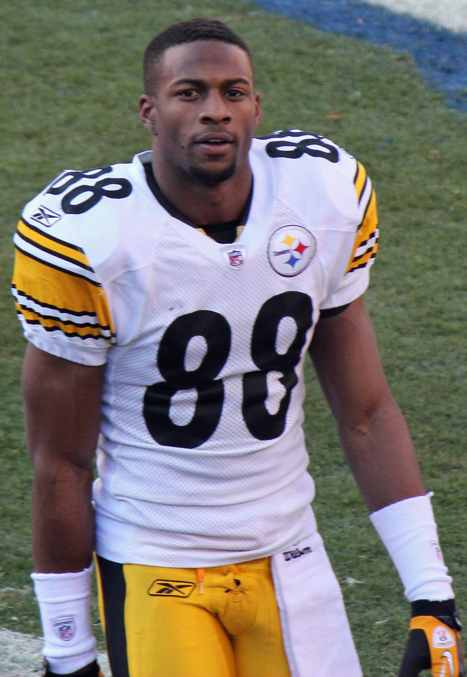 Emmanuel Sanders, a player on the National Football League.